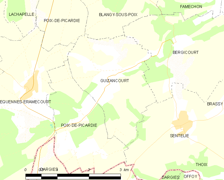 Map of French municipality Guizancourt